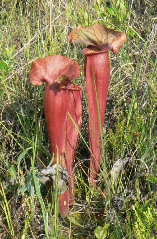 A wild-growing hybrid pitcherplant from the Florida panhandle. One parent is Sarracenia flava and the other is Sarracenia purpurea (or the more current name: Sarracenia rosea).